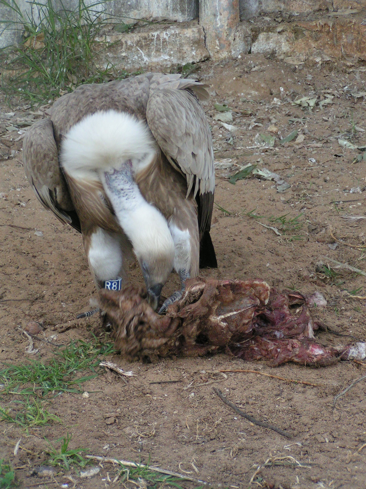 Taken in the Garden for Zoologic Research, Tel Aviv University, Israel. An Eagle eating.